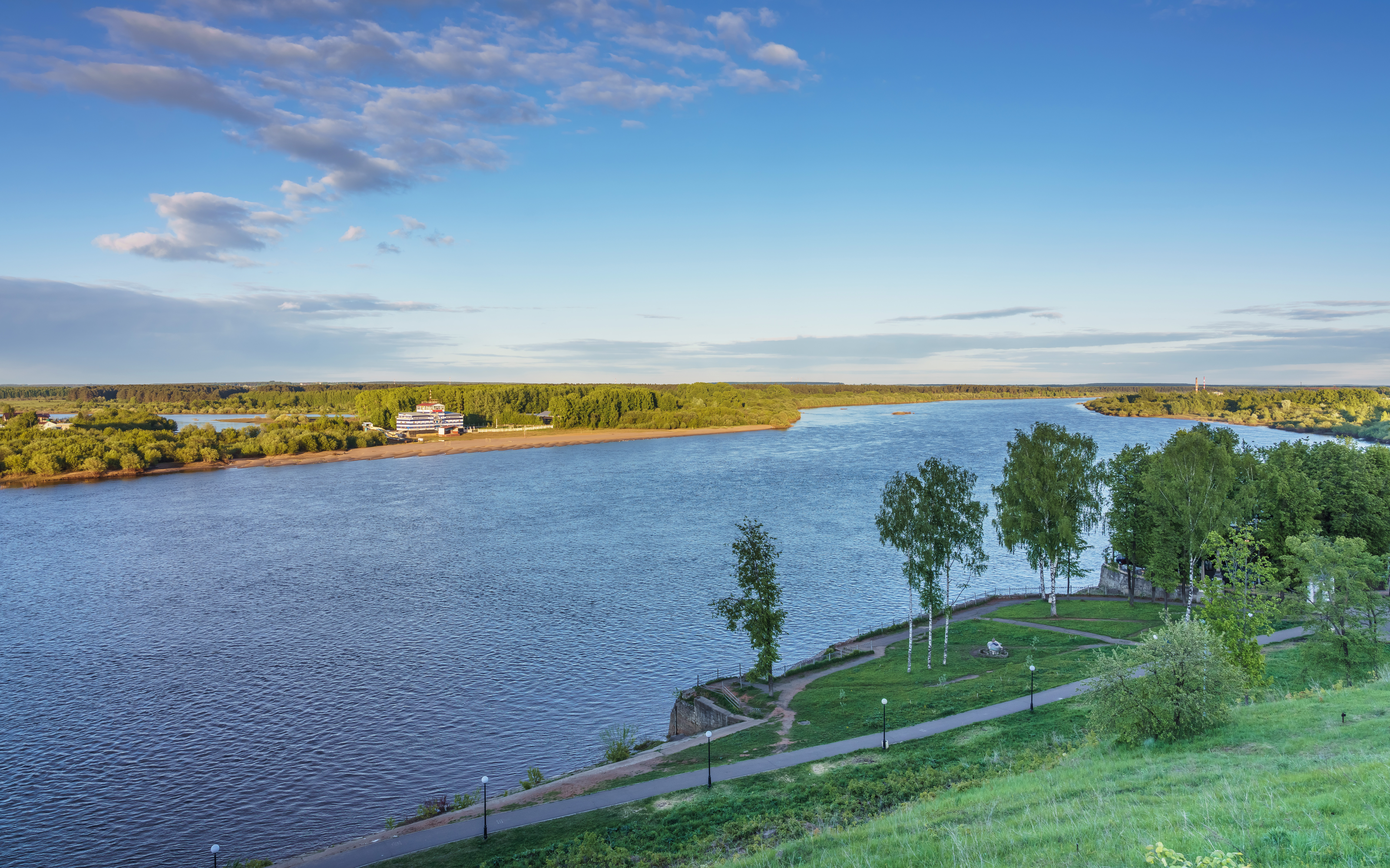 View of Vyatka River at Alexander Garden in Kirov, Russia